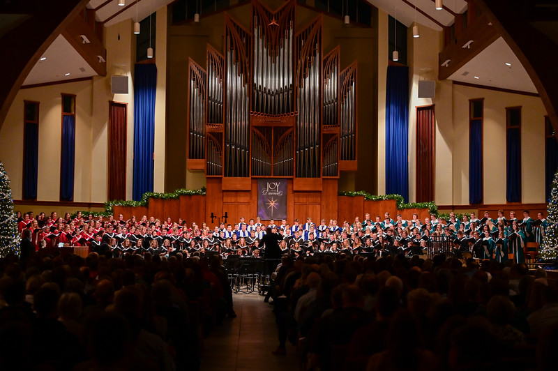 This is a photo of the Martin Luther College Christmas Concert in 2019. The photo features four choirs, a wind symphony, and a congregation in the Chapel of the Christ at the MLC campus in New Ulm, MN.